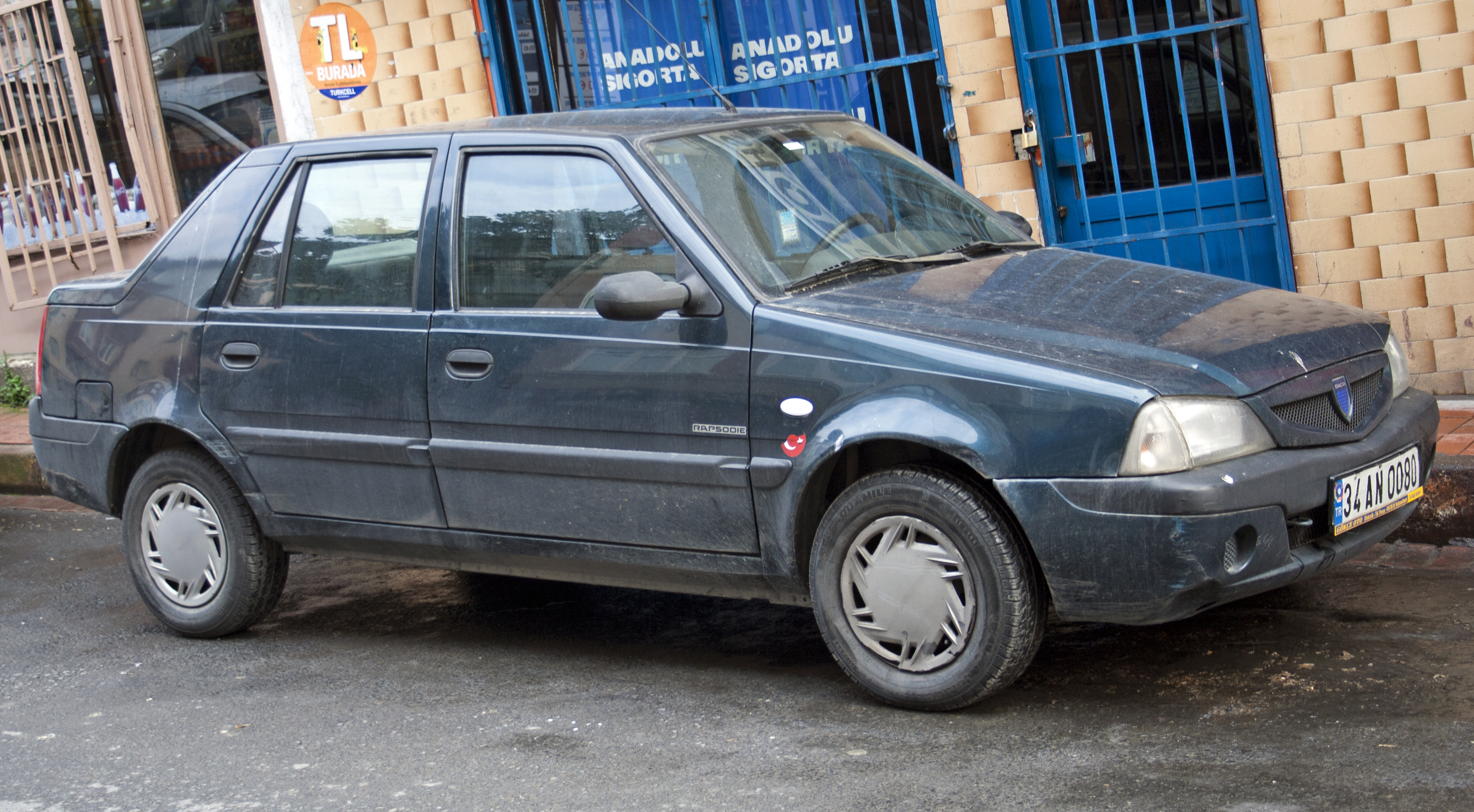 Dacia Solenza Rapsodie, the mid-line equipment level.